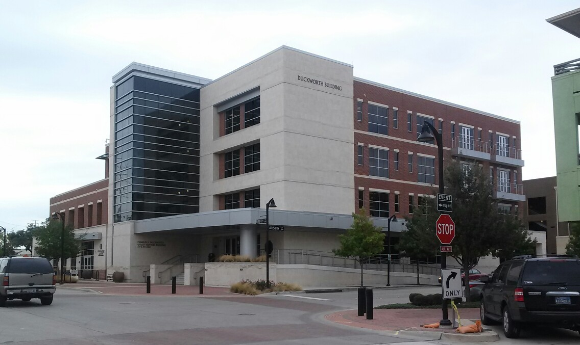 Duckworth Utility Services Buiding